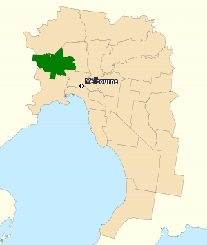 Incorporates or developed using Administrative Boundaries ©PSMA Australia Limited licensed by the Commonwealth of Australia under Creative Commons Attribution 4.0 International licence (CC BY 4.0). Derived from State and Territory Boundaries from the Australian Bureau of Statistics under Creative Commons Attribution 2.5 Australia license (CC BY 2.5 AU)